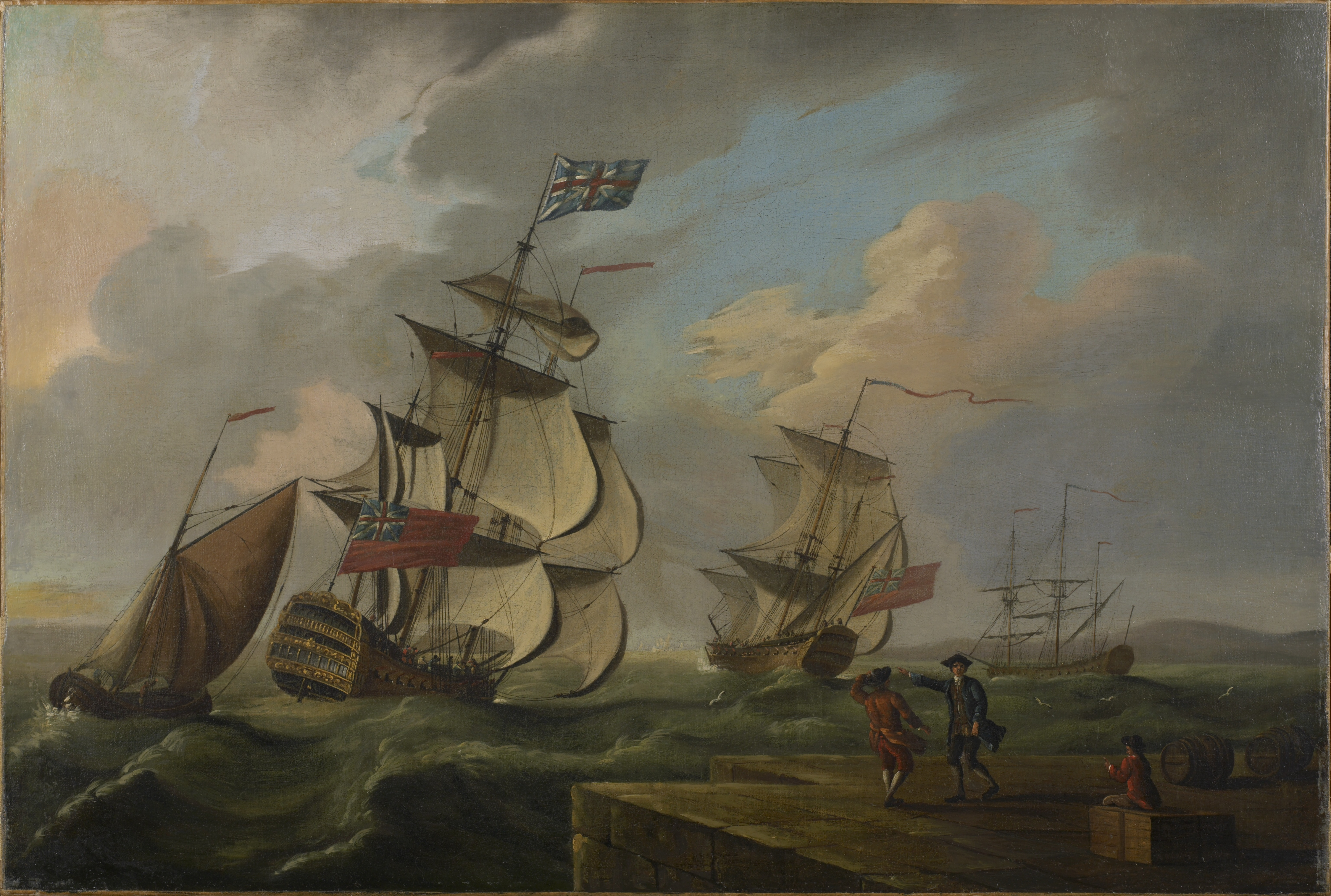 HMS Sutherland By Robert Wilkins